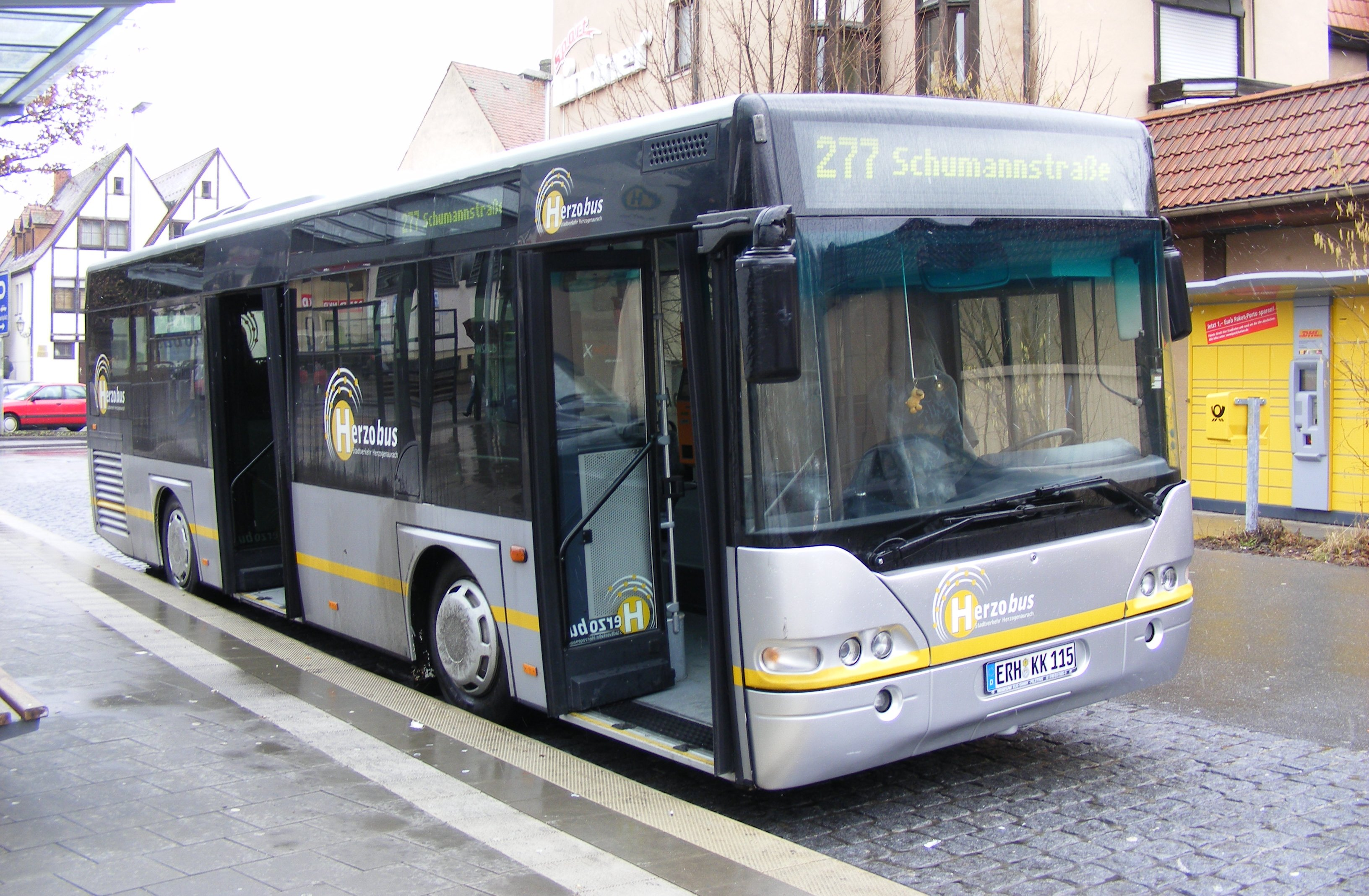 Neoplan N 4411 at Bus Stadion in Herzogenaurach/Germany